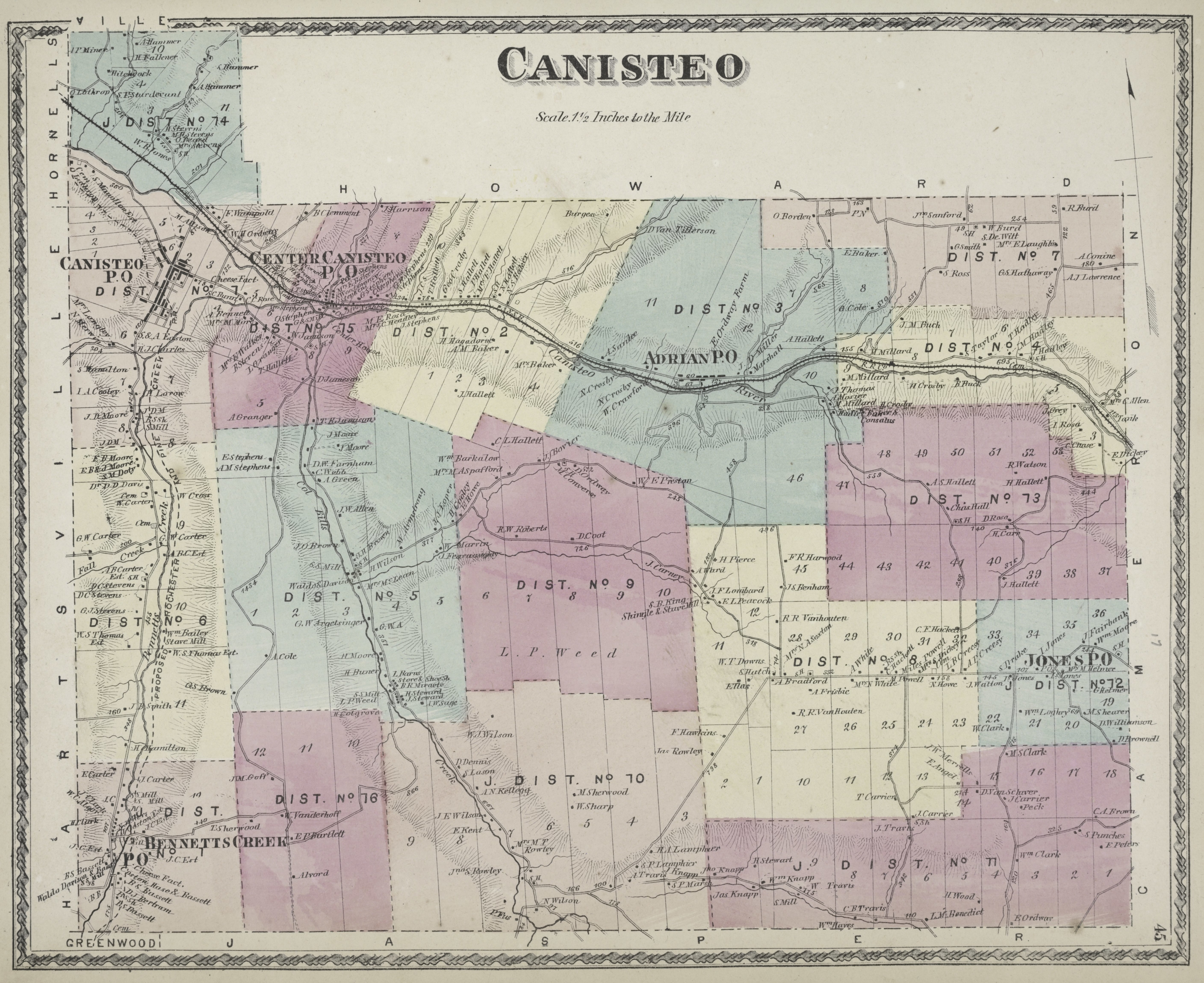 Canisteo [Village]; Canisteo Business Notices.; Atlases of the United States / New York / Atlas of Steuben County, New York; from actual surveys and official records / compiled and published by D.G. Beers and Co.